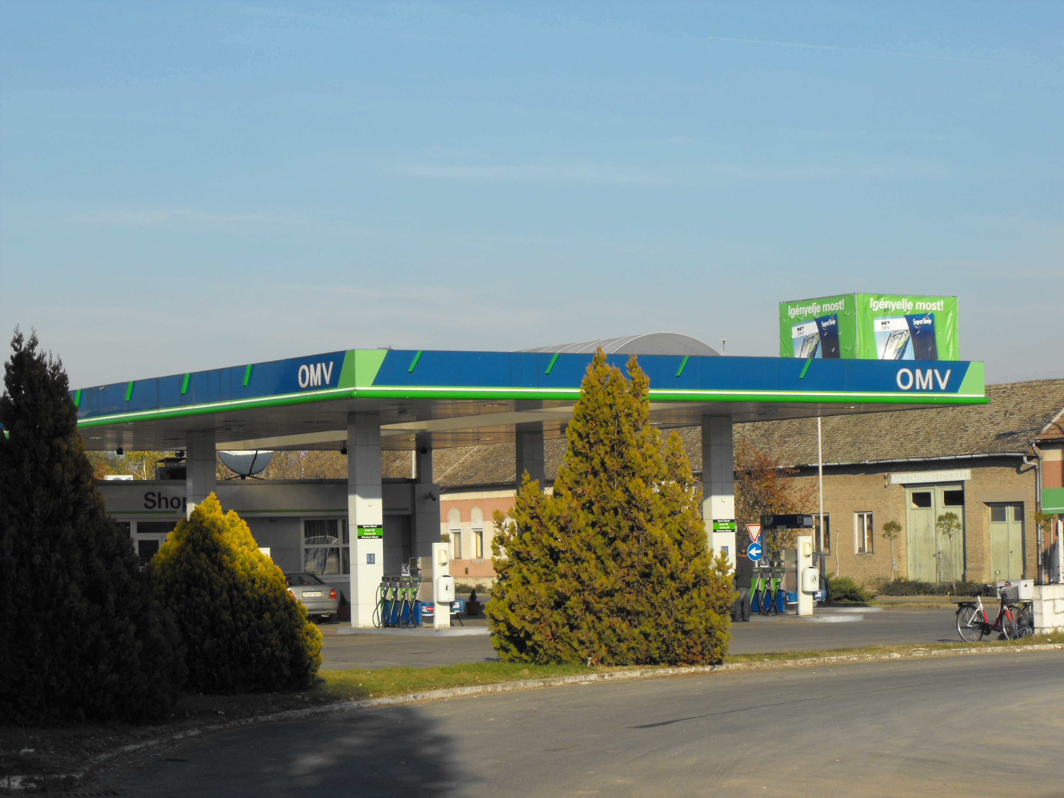 OMV petrol station in Makó, Hungary.